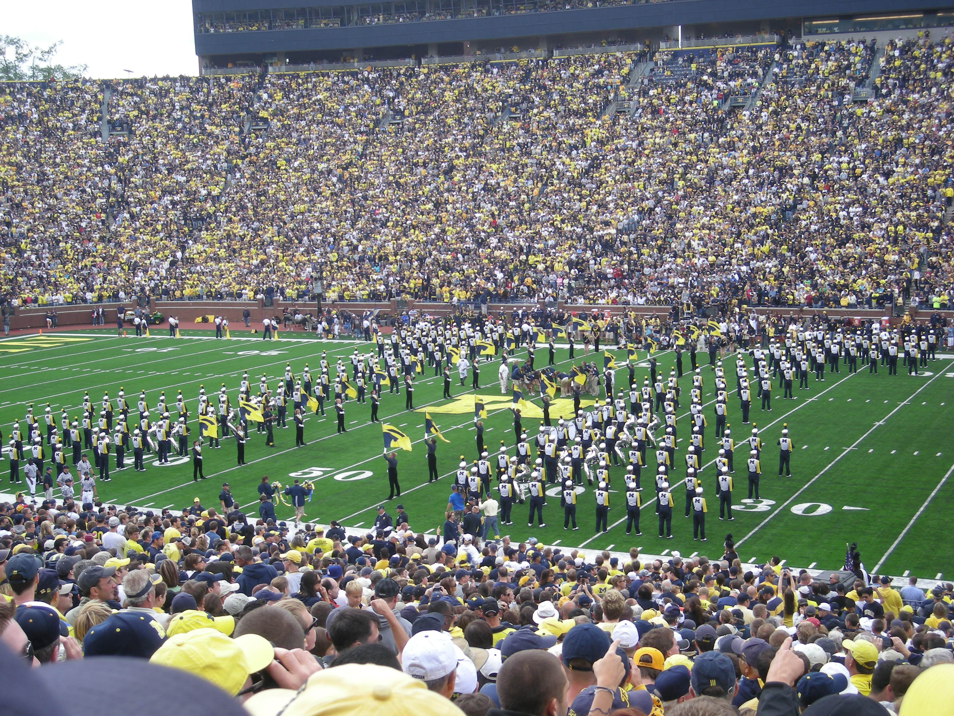 The Michigan Marching Band performing before the Connecticut Huskies vs. Michigan Wolverines football game at Michigan Stadium in Ann Arbor, Michigan (United States).